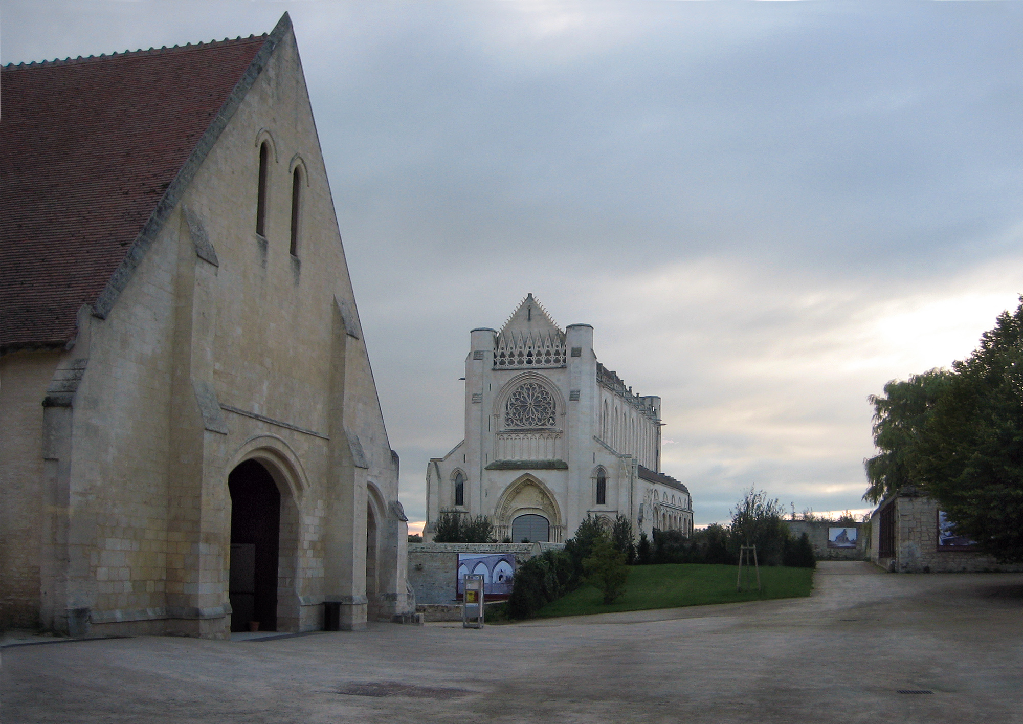 The Ardennes Abbey in the Calvados department of Normandy, in France. Largely restored after it was used as an observation post for the German army in the Battle of Normandy. Approximately 27 Canadian prisoners of war were executed in or around the Abbey.